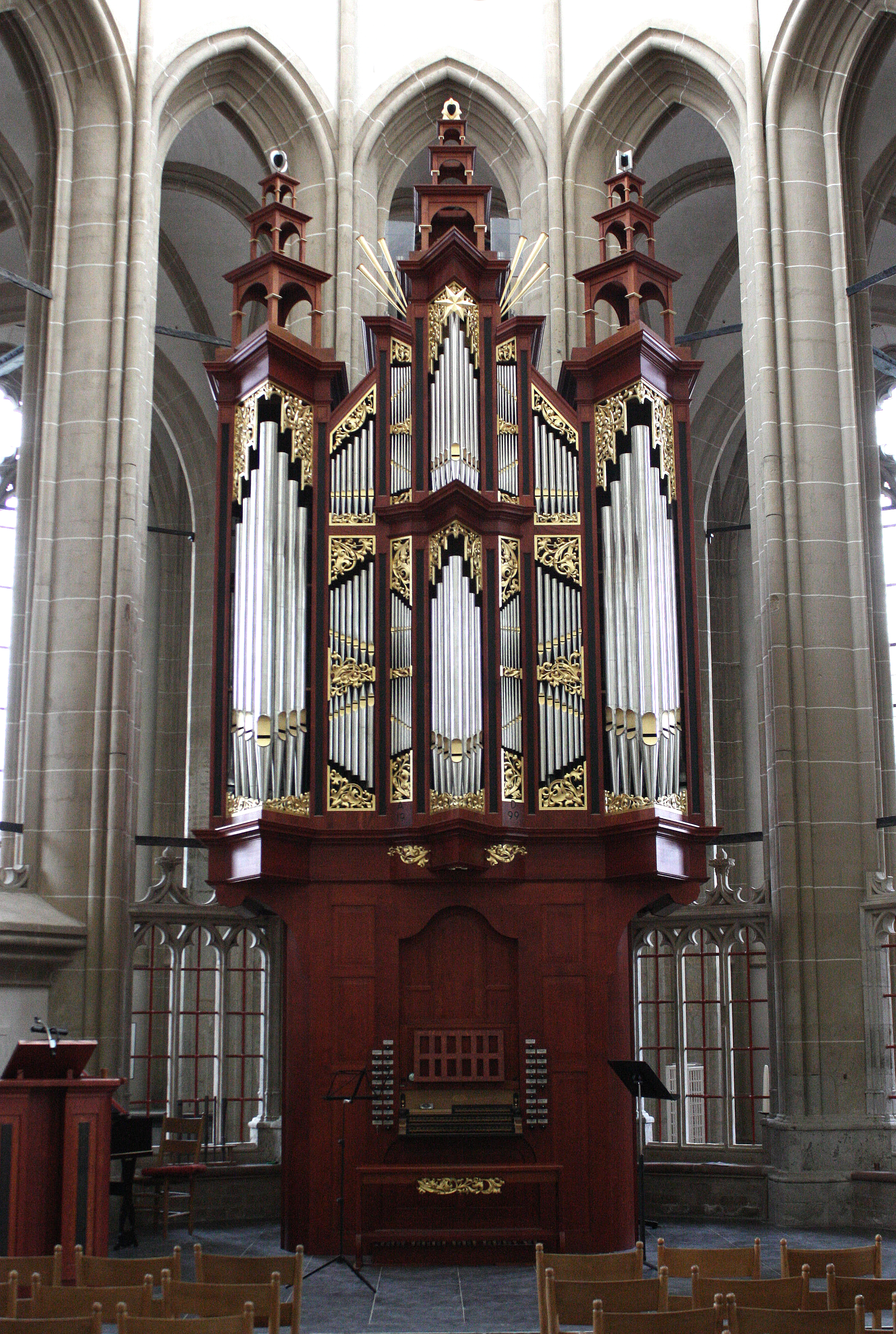 Choir organ in Kampen, Bovenkerk